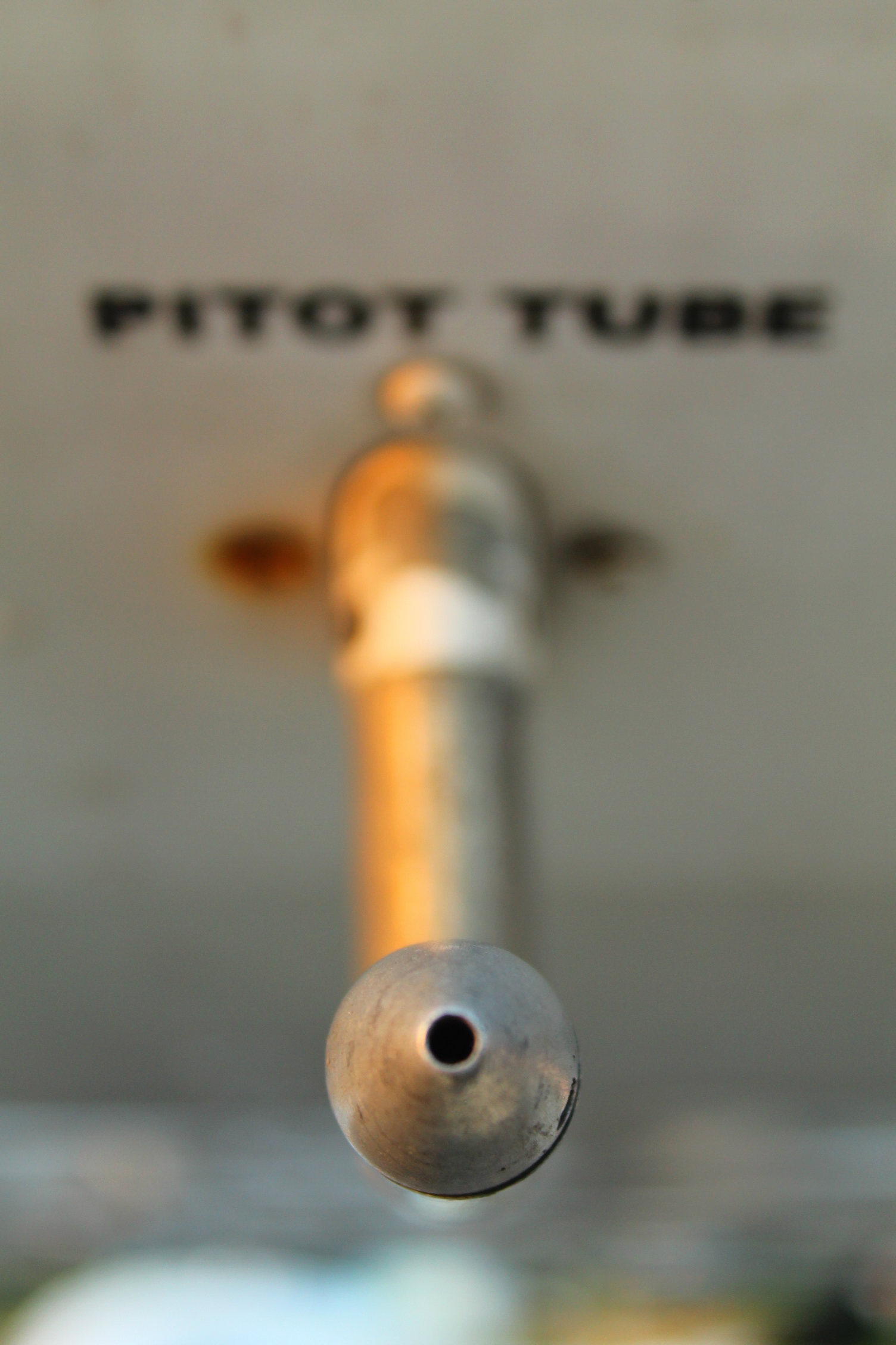 January 16 - Just me and my 1100D at Plaridel Airport, Bulacan. Beautiful January sunset.